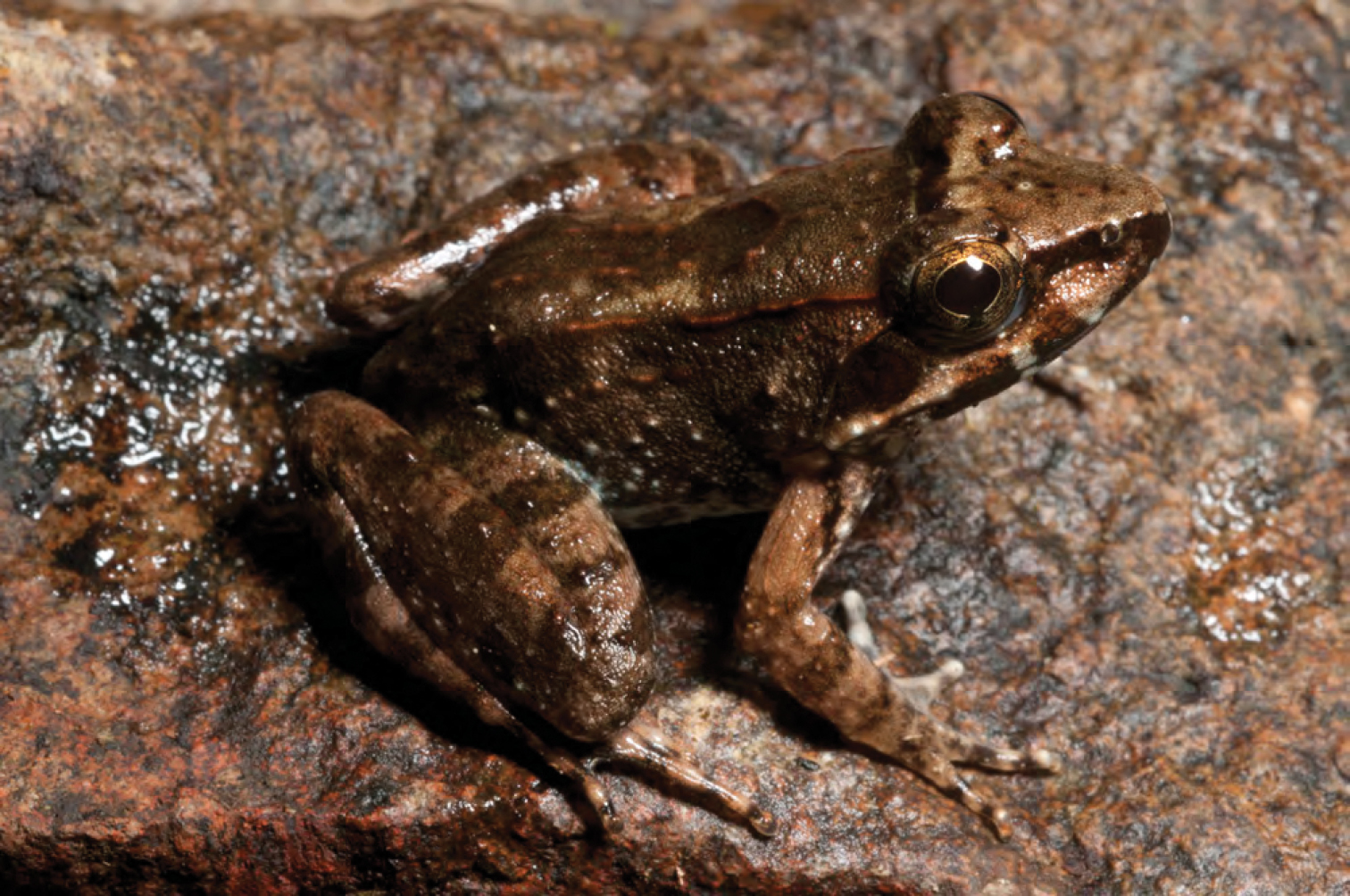 Limnonectes woodworthi (KU 330226) from mid-elevation Mt. Cagua. Photo: RMB.